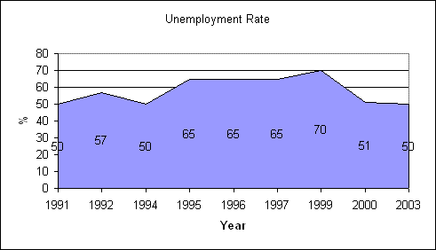 Graph of unemployment in Haiti.